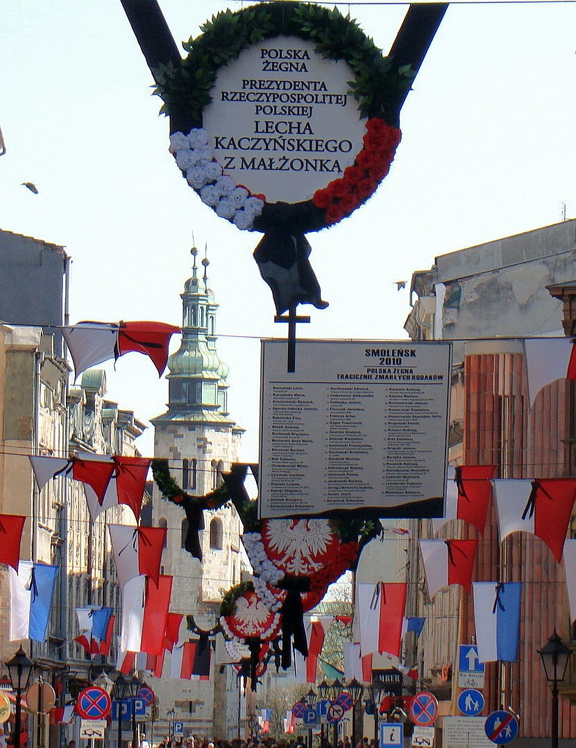 Cracow. 18.04.2010